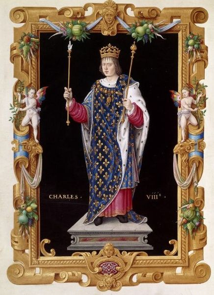 From Recueil des rois de France. (FR 2848, f� 150)., by Jean de Tillet (16th century). In the Bibliothèque Nationale de France.